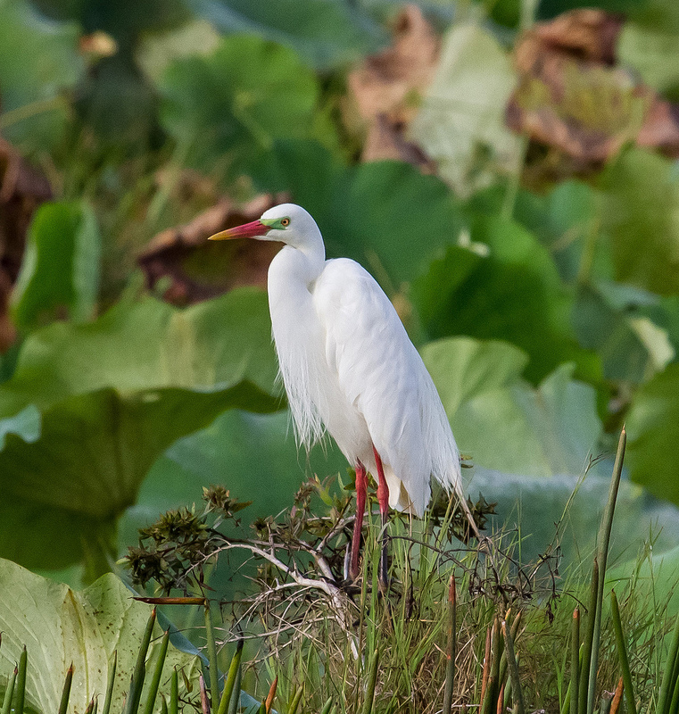 Intermediate Egret in breeding plumage.1 - Fogg Dam - Middle Point - Northern Territory - Australia